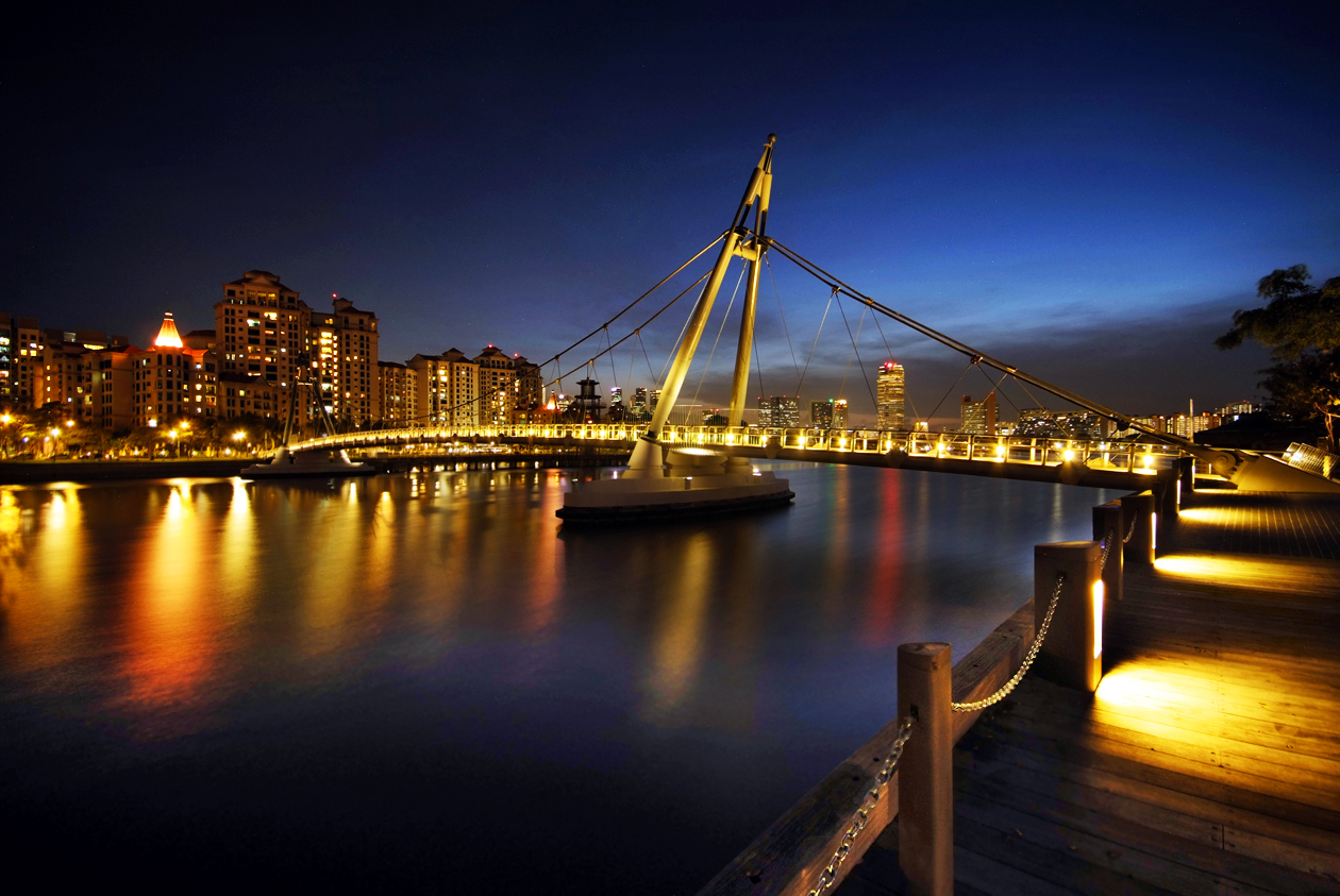 Singapore's first suspension footbridge was built in 1998. The bridge spans the Geylang River and allows residents of Tanjong Rhu to cross over to the Singapore Indoor Stadium. Best viewed on BLACK